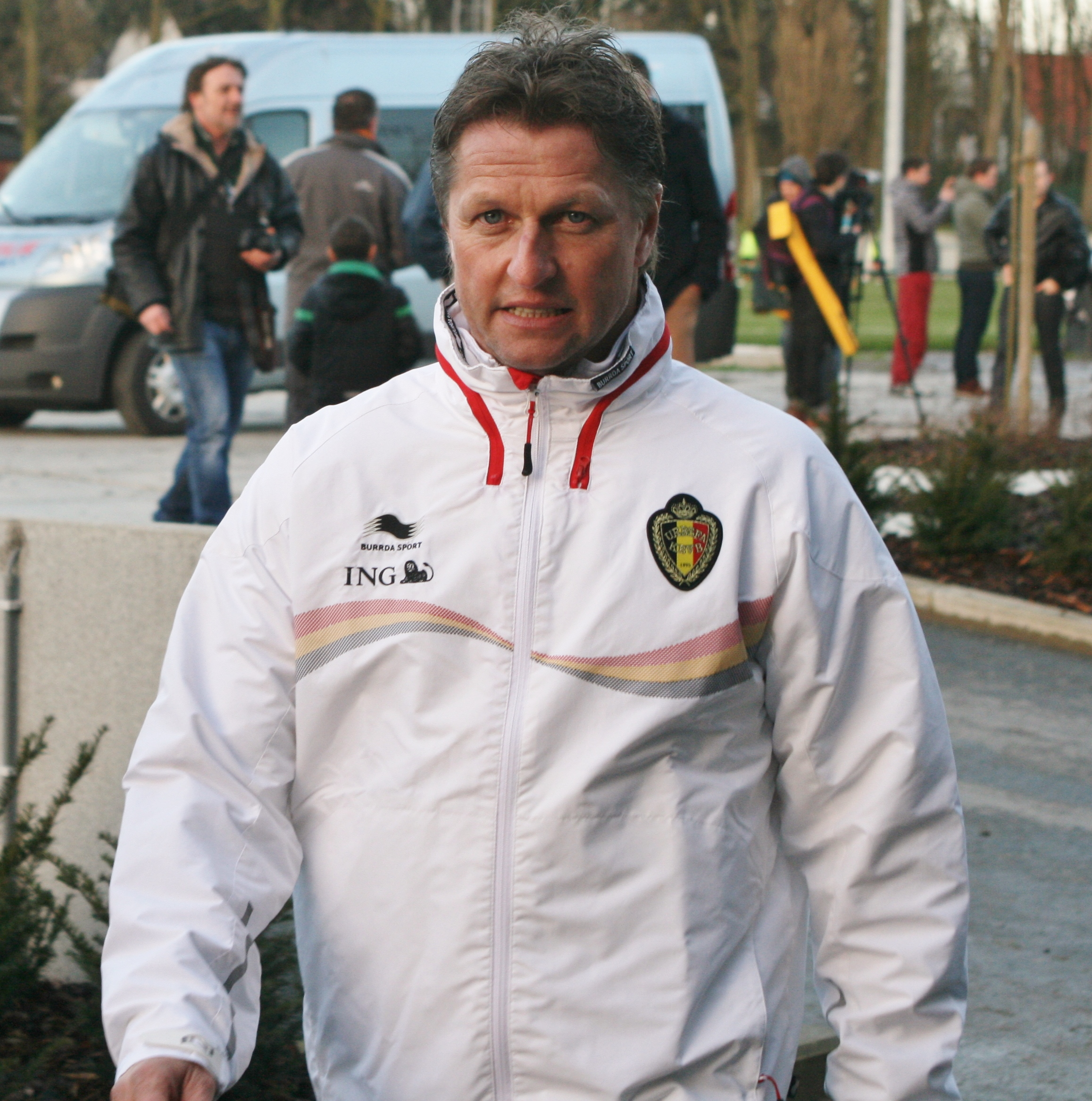 Vital Borkelmans during a training session with the belgian Red Devils